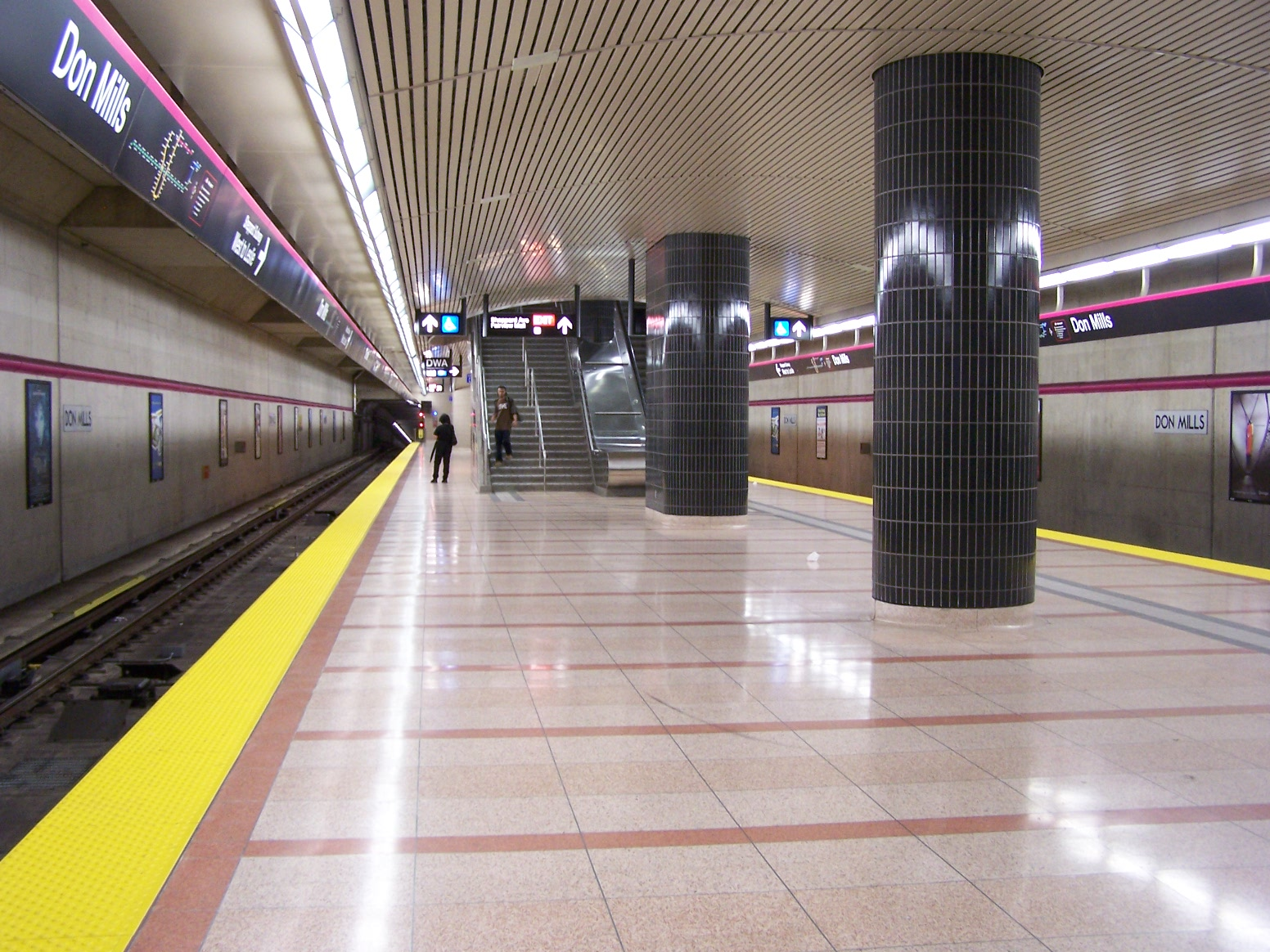 Wide platform at Don Mills TTC subway station